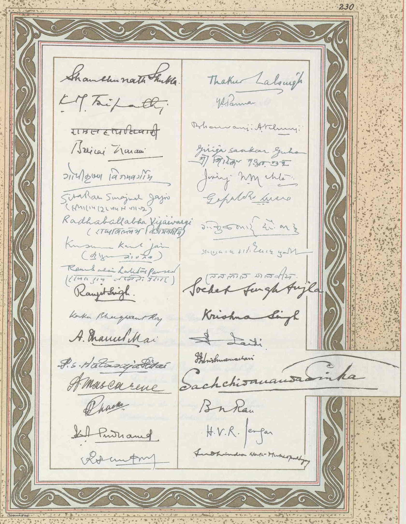 Page frame of Constitution of India (Original Calligraphed and Illuminated Version) with signatures of members